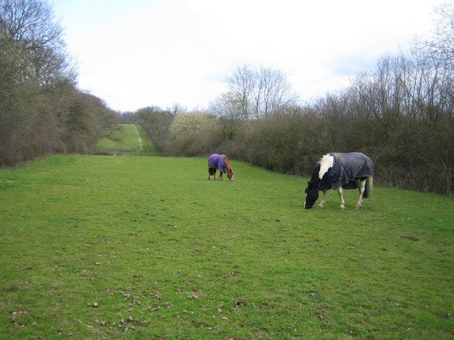 Stowe Woods: The Ridings One of the axial rides cut through the medieval Whittlewood Forest in the sixteenth century. Although not part of the Stowe estate they can be partially accessed, like this one, by public footpath.